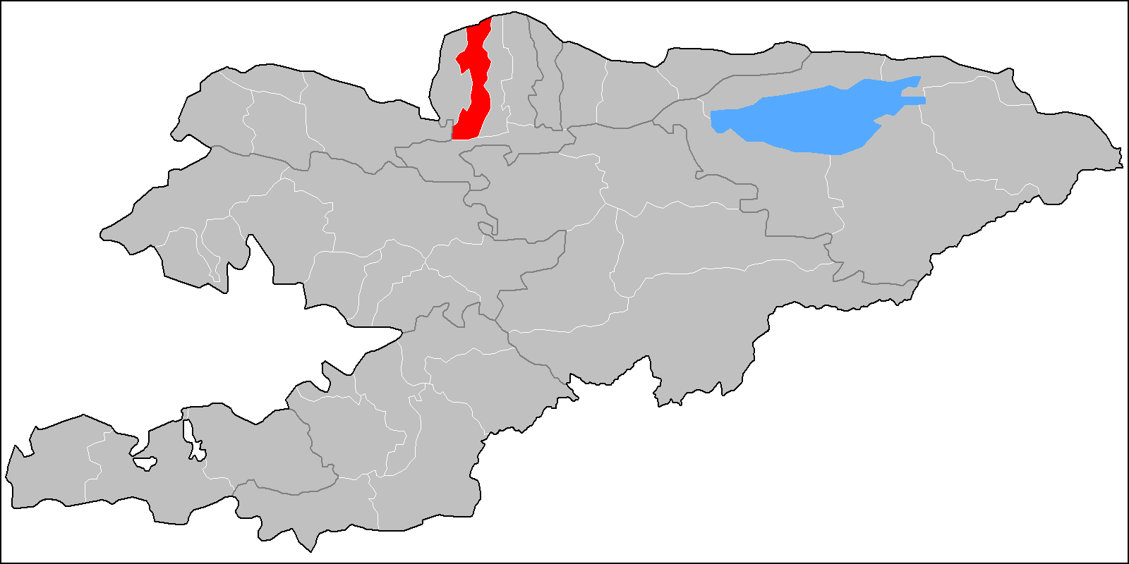 The location of the raion (district) of Jayyl in Kyrgyzstan. Based on Image:Kyrgyzstan raions.png